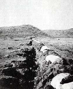 The primary Boer trench at Magersfontein